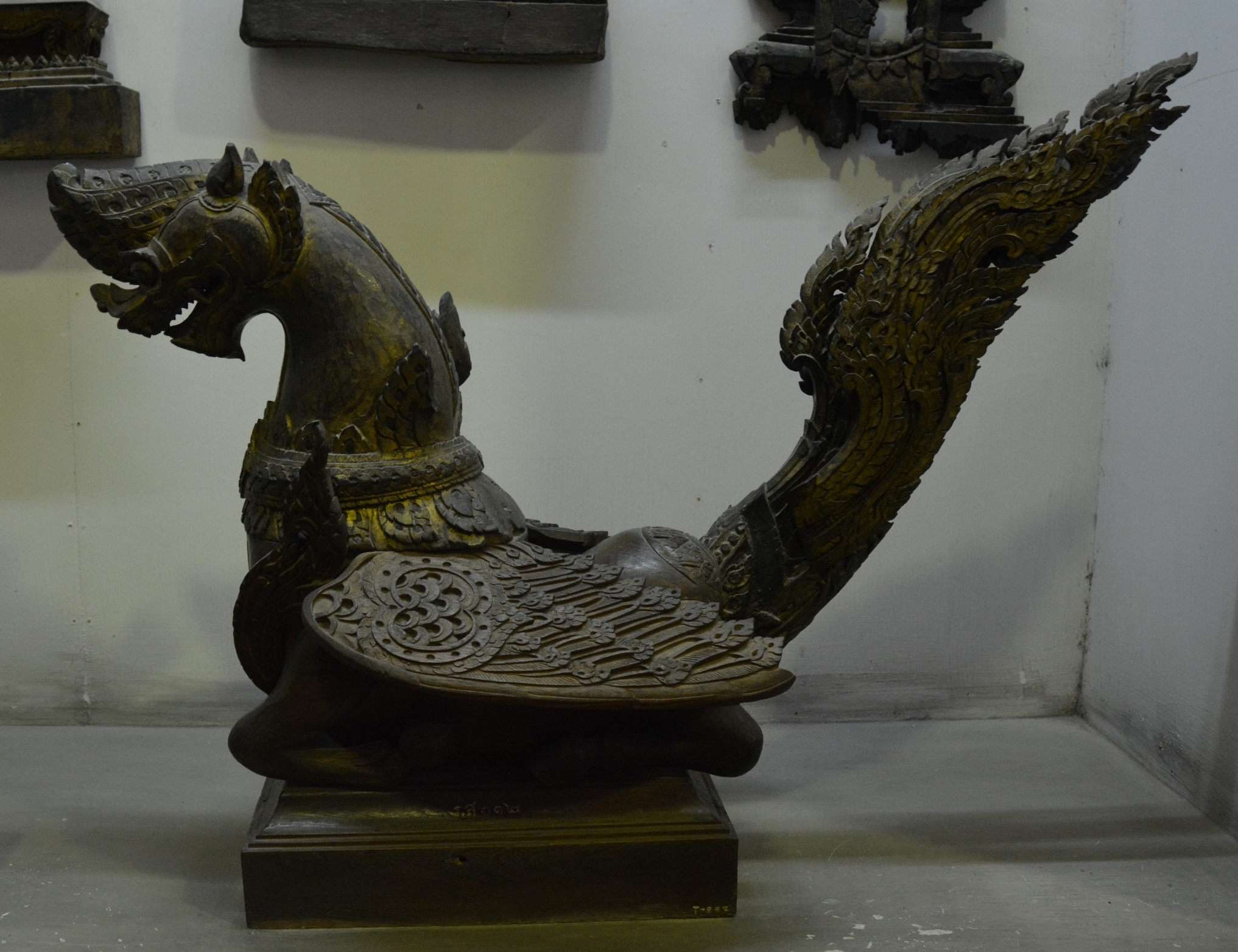 Wood sculpture of Nok Sadayu or Jatayu, mythological bird of Hindouism (Bangkok National Museum)